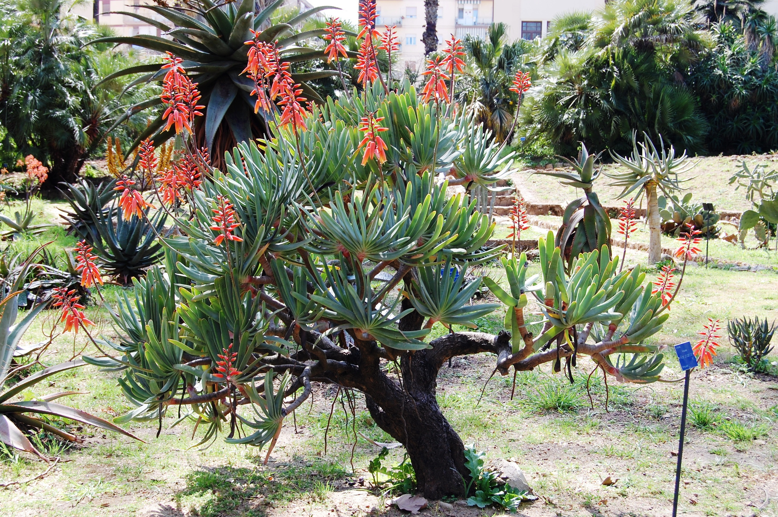 Aloe plicatilisOrto botanico di Palermo